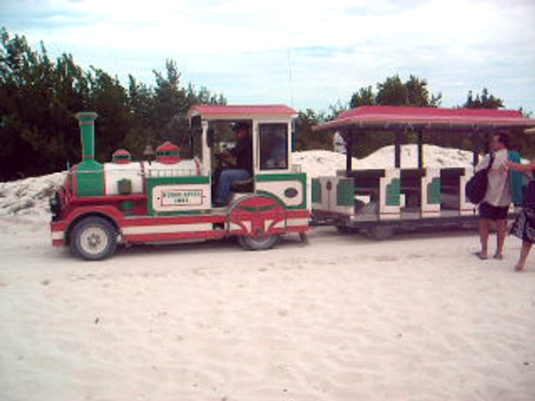 Shuttle ("little train") for Sirena beach and Paraíso beach, Cayo Largo del Sur, Cuba